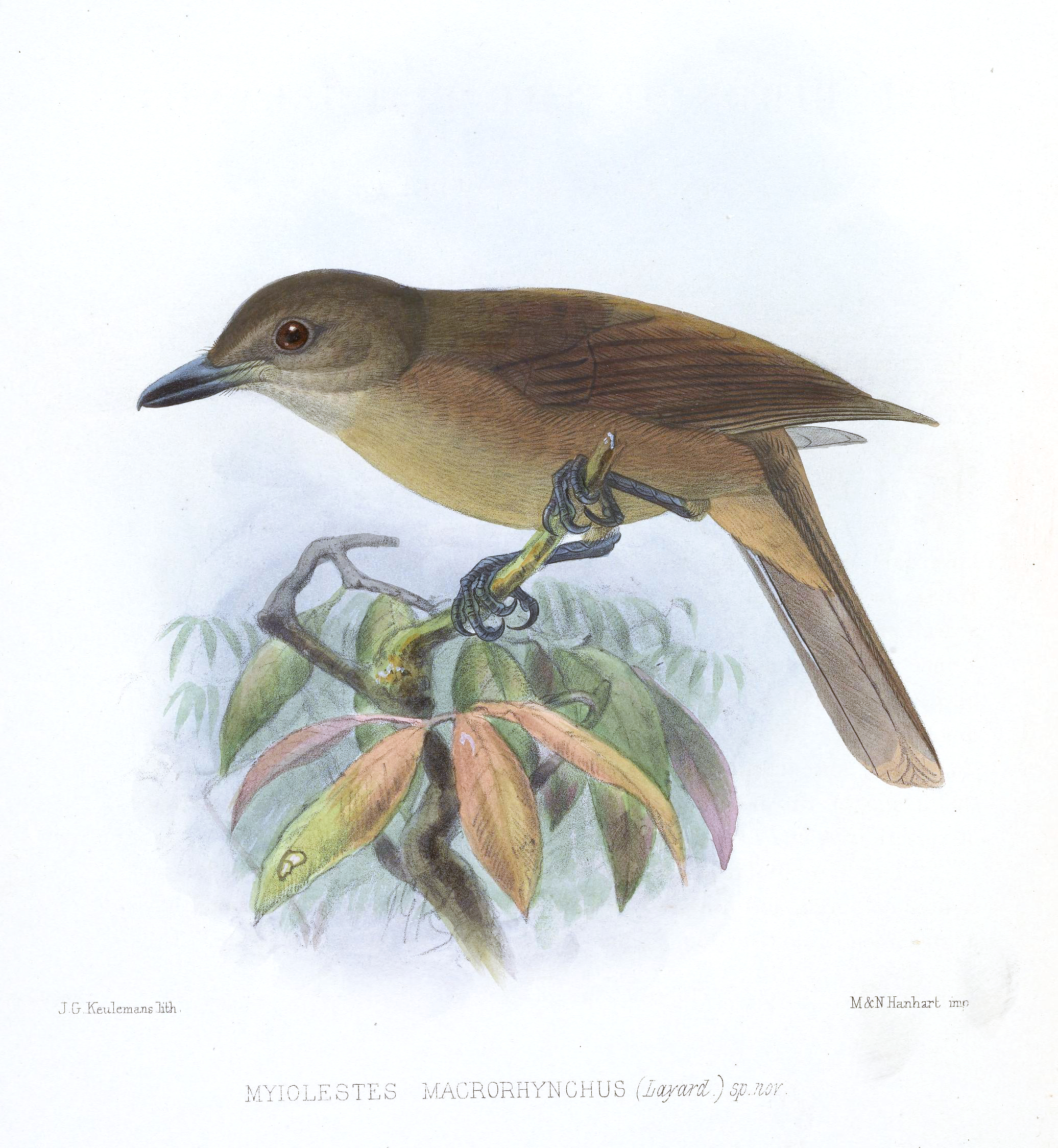 Pachycephala pectoralis macrorhynchus